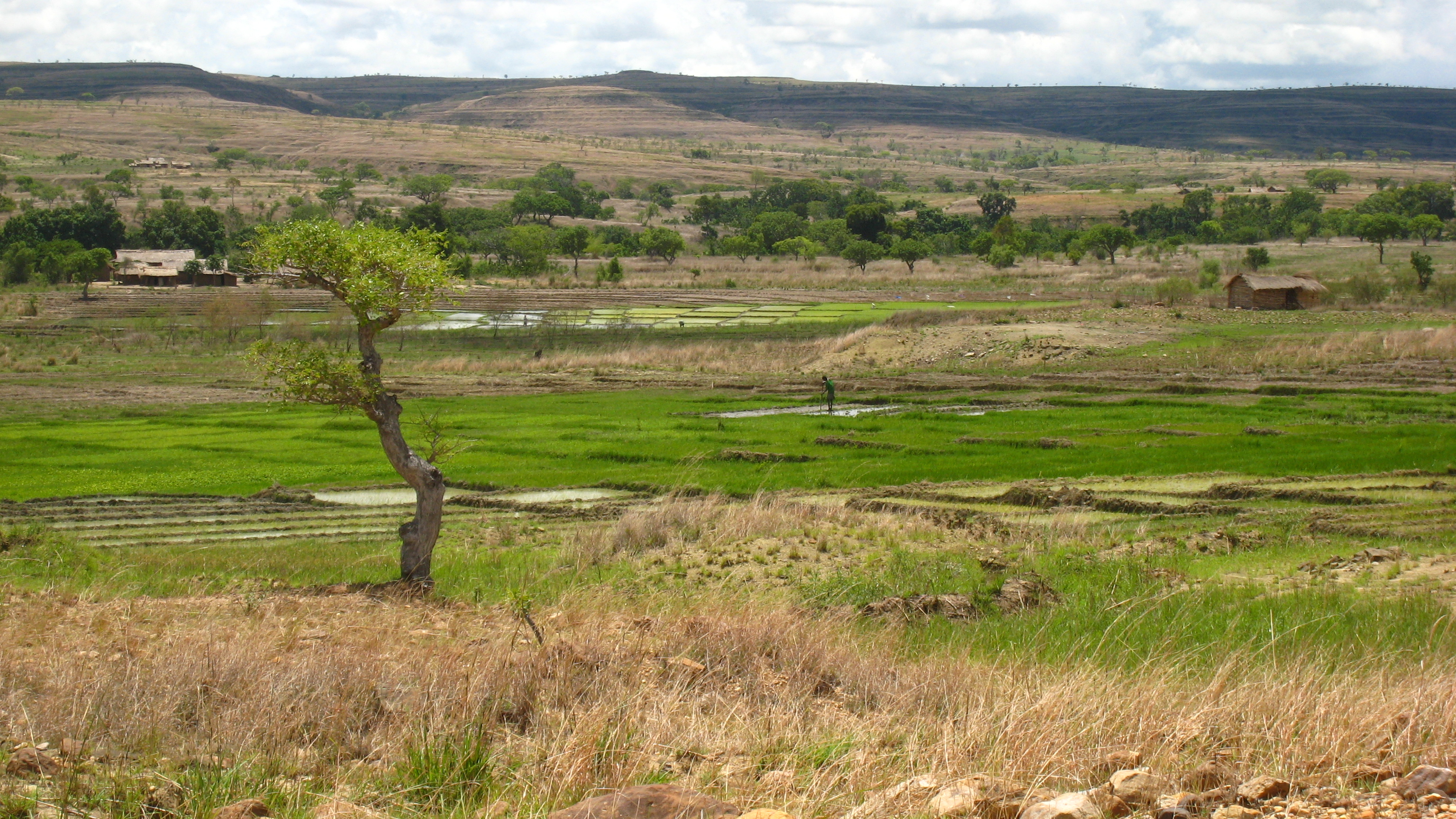 Rice paddies at Ranohira in southern Madagascar, just outside of Isalo National Park